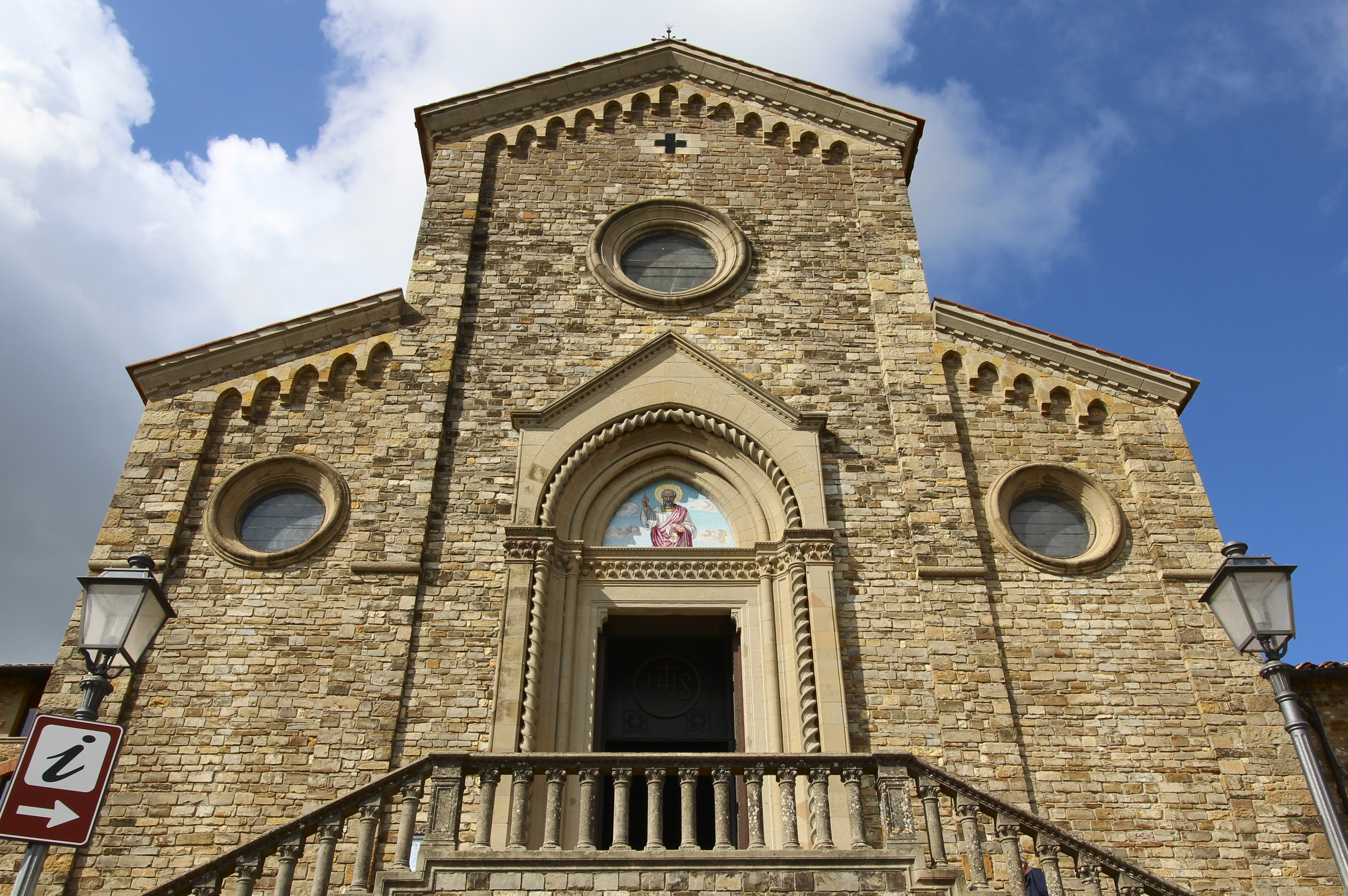 Church San Bartolomeo, Barberino Val d'Elsa, Comune in the Metropolitan City of Florence, Tuscany, Italy